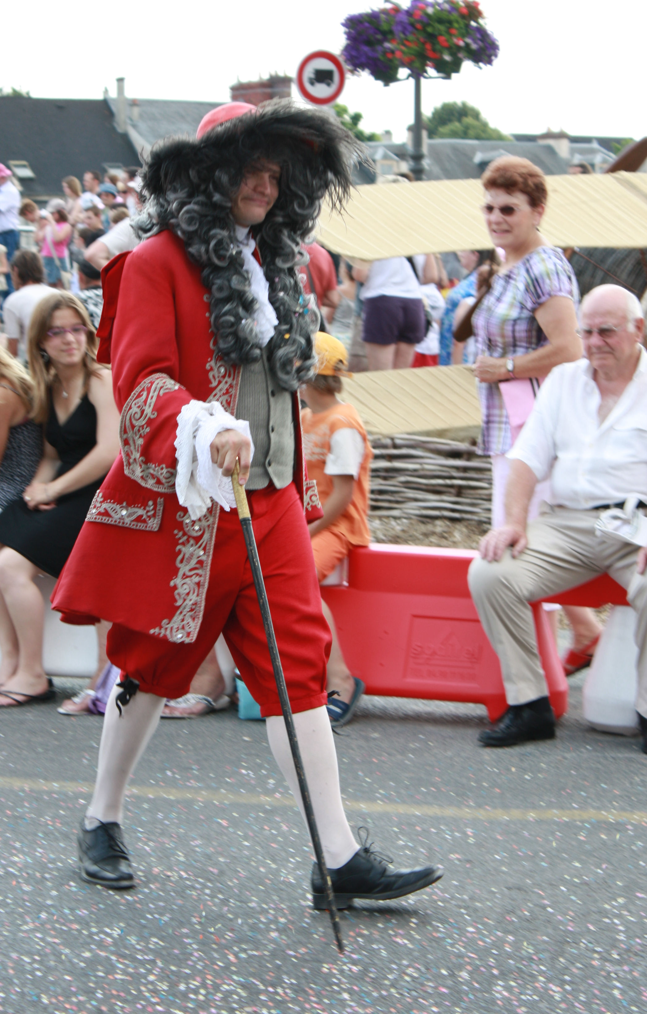 An actor playing the role of Jean de La Fontaine during the 50th fêtes à Jean in Château-Thierry, France.